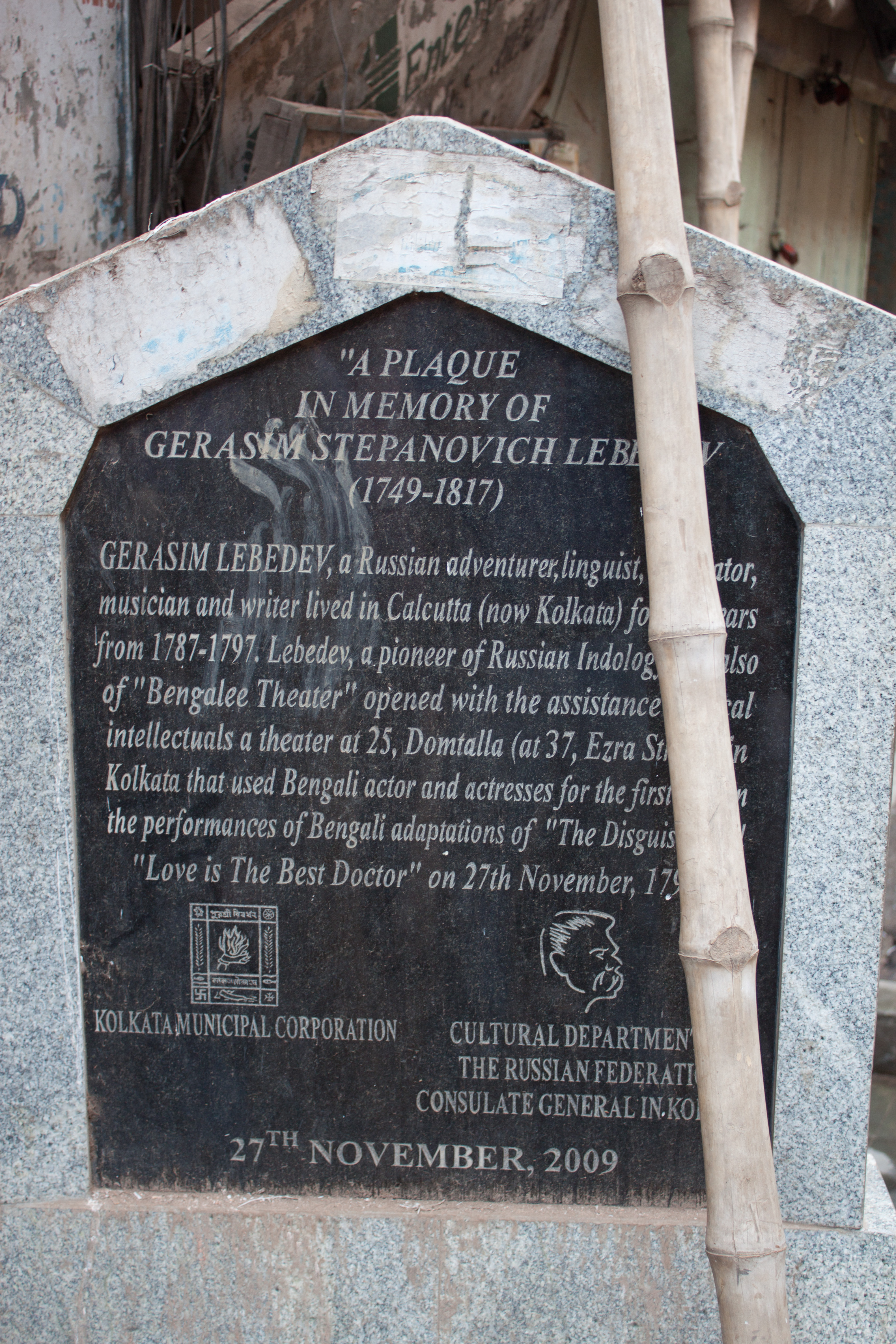 The image shows a plaque erected in the memory of Gerasim Stepanich Lebedev, an 18th century Russian adventurer who came to India. He is considered the pioneer of modern Bengali threatre.